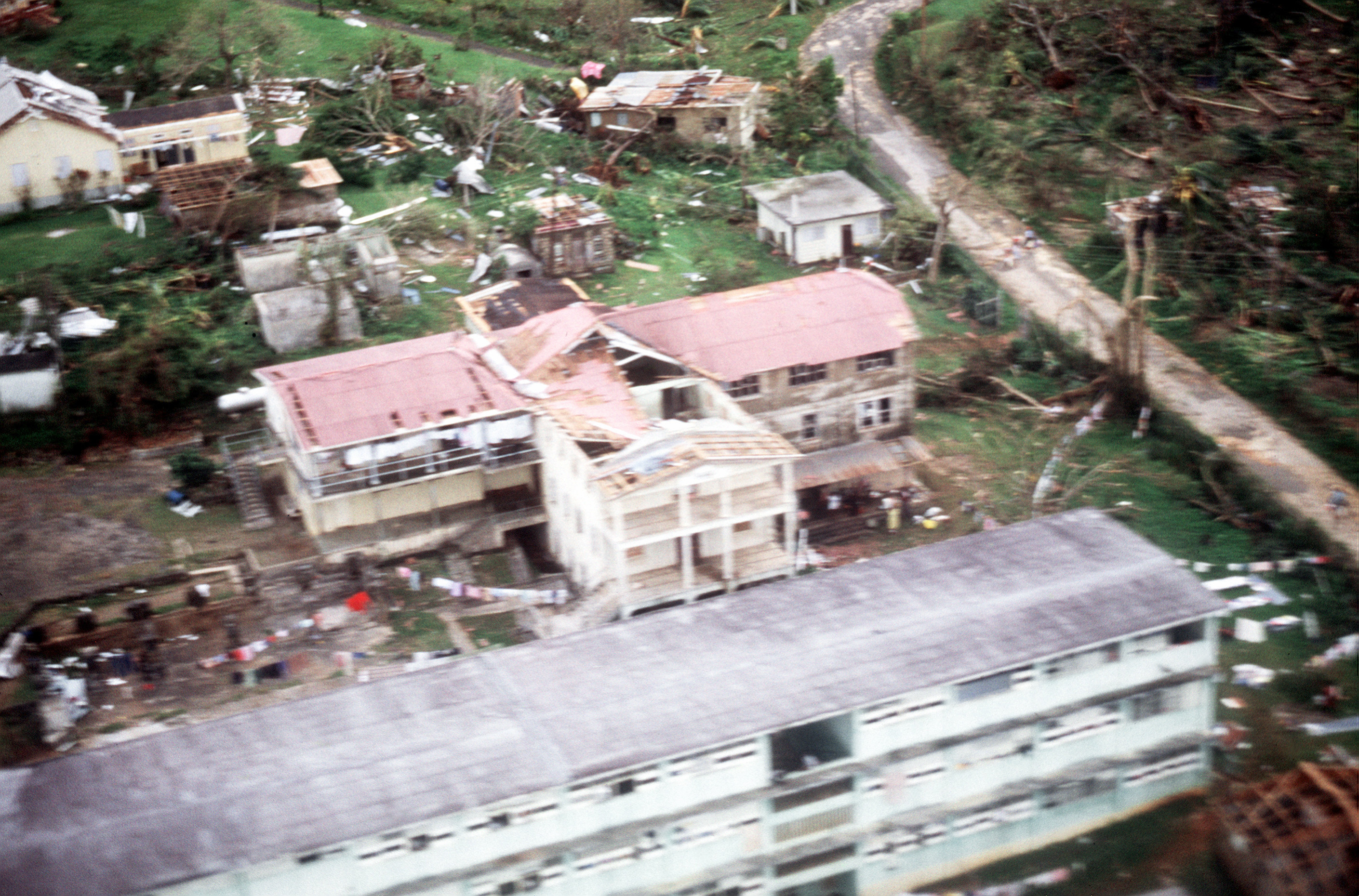 An aerial view of some of the destruction caused by the 180-mph winds and torrential rains brought by Hurricane Gilbert on September 12 and 13.